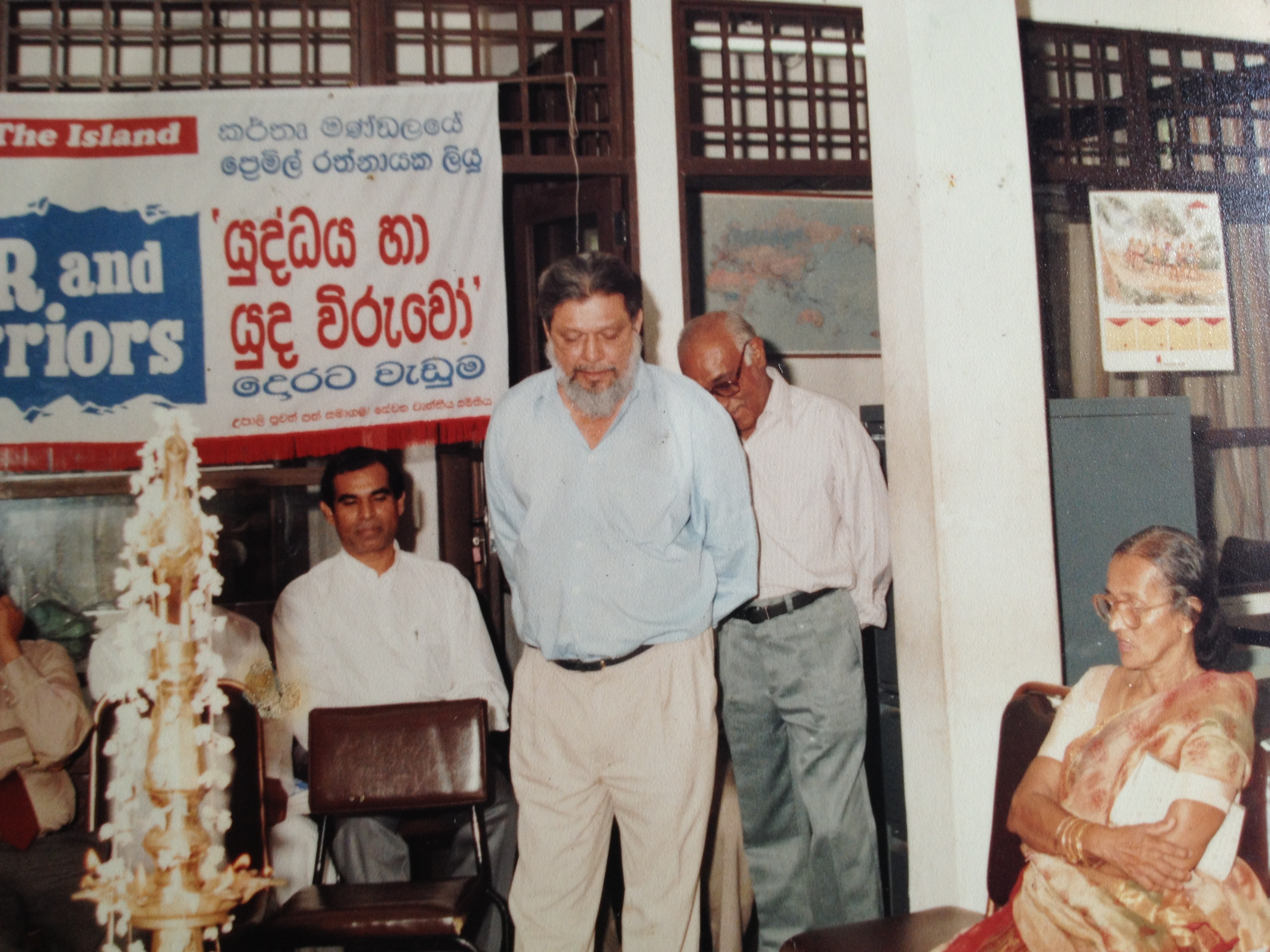 Launch of his book; War and Warriors